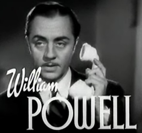 Cropped screenshot of William Powell from the trailer for the film The Last of Mrs. Cheyney